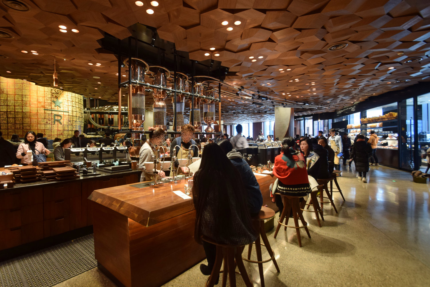 Main Bar & Symphony Pipes at 1F of Starbucks Reserve Roastery Shanghai, HKRI Taikoo Hui